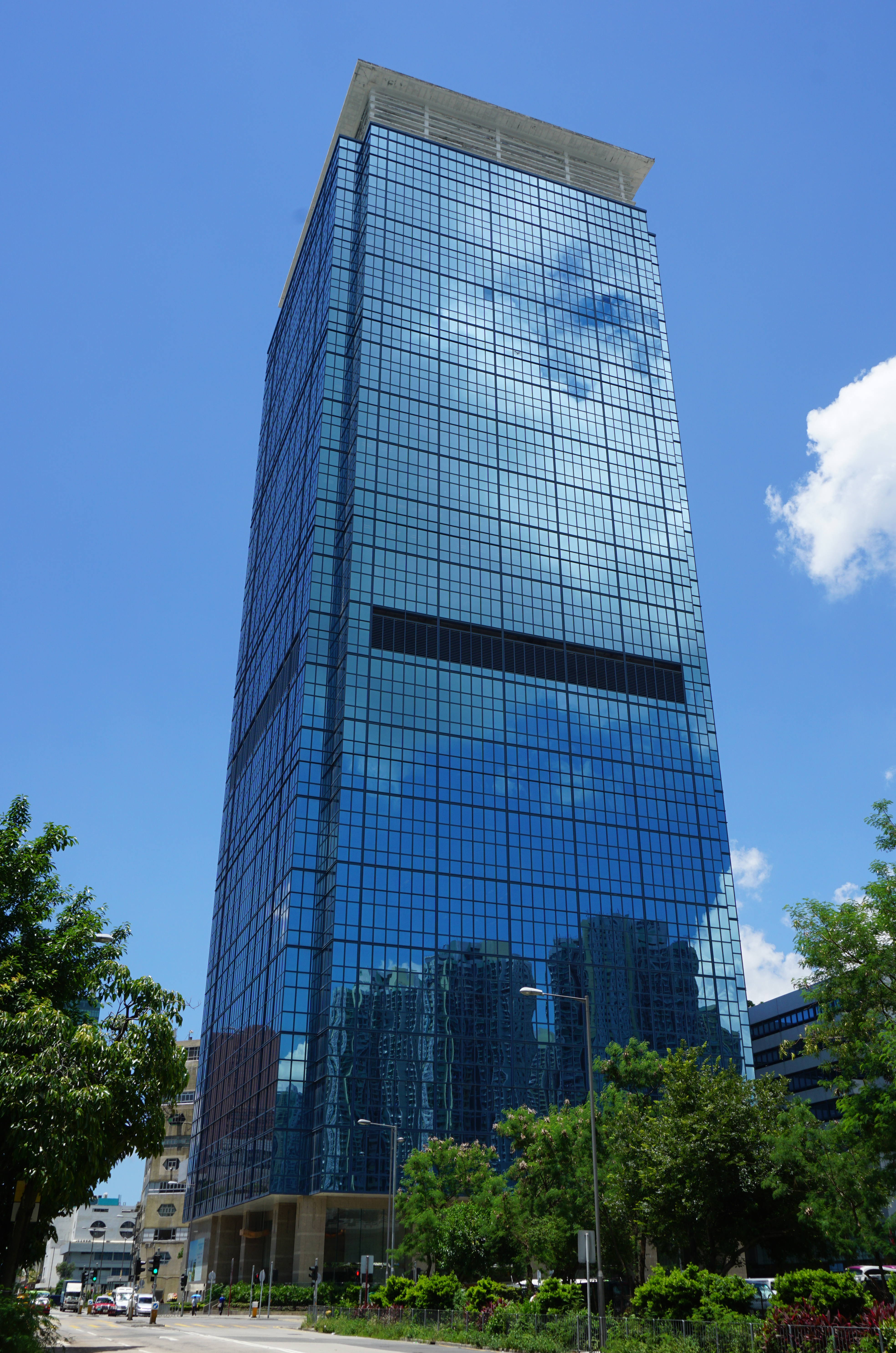 Skyline Tower in Kowloon Bay, Hong Kong.